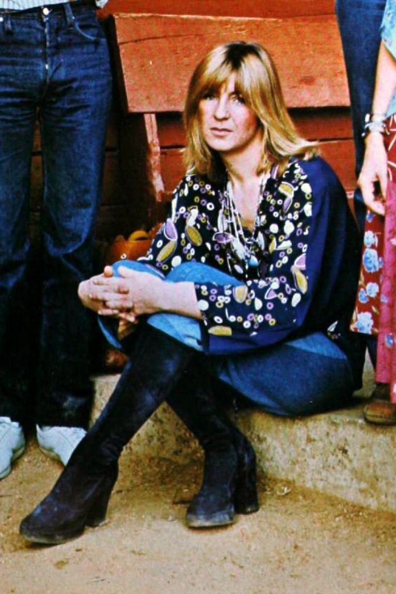 Extract from a trade advertisement for Fleetwood Mac's album Rumours, featuring Christine McVie.(The ad was cropped and cleaned in a graphics editing program. The original can be viewed at the source below.)